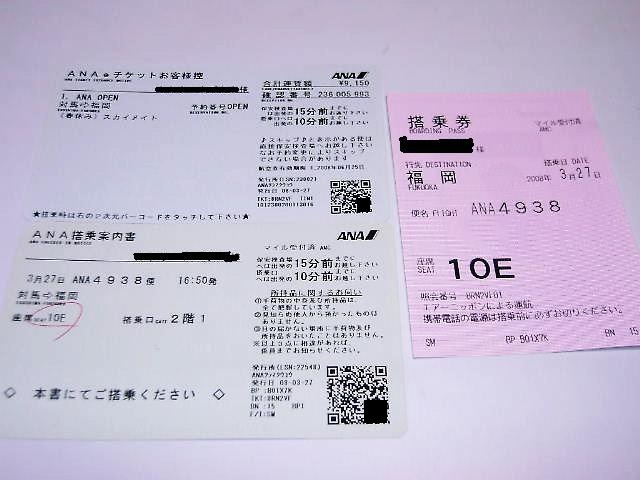 All Nippon Airways SKiP e-ticket; a user with this ticket does not have to check in